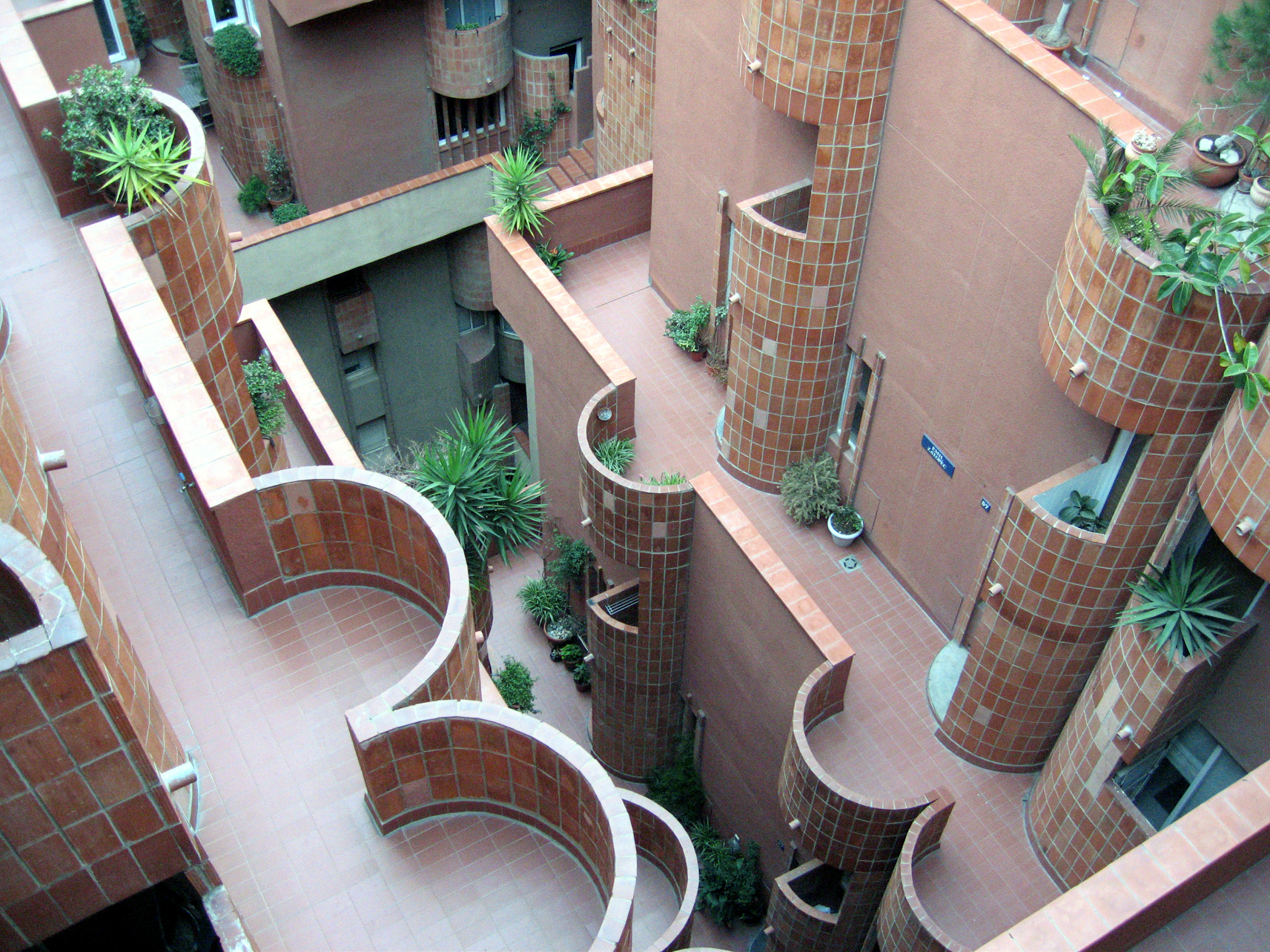 The “Walden-7” building in Sant Just Desvern (Catalonia).